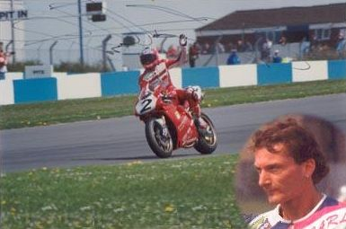 Photo by Gary Watson